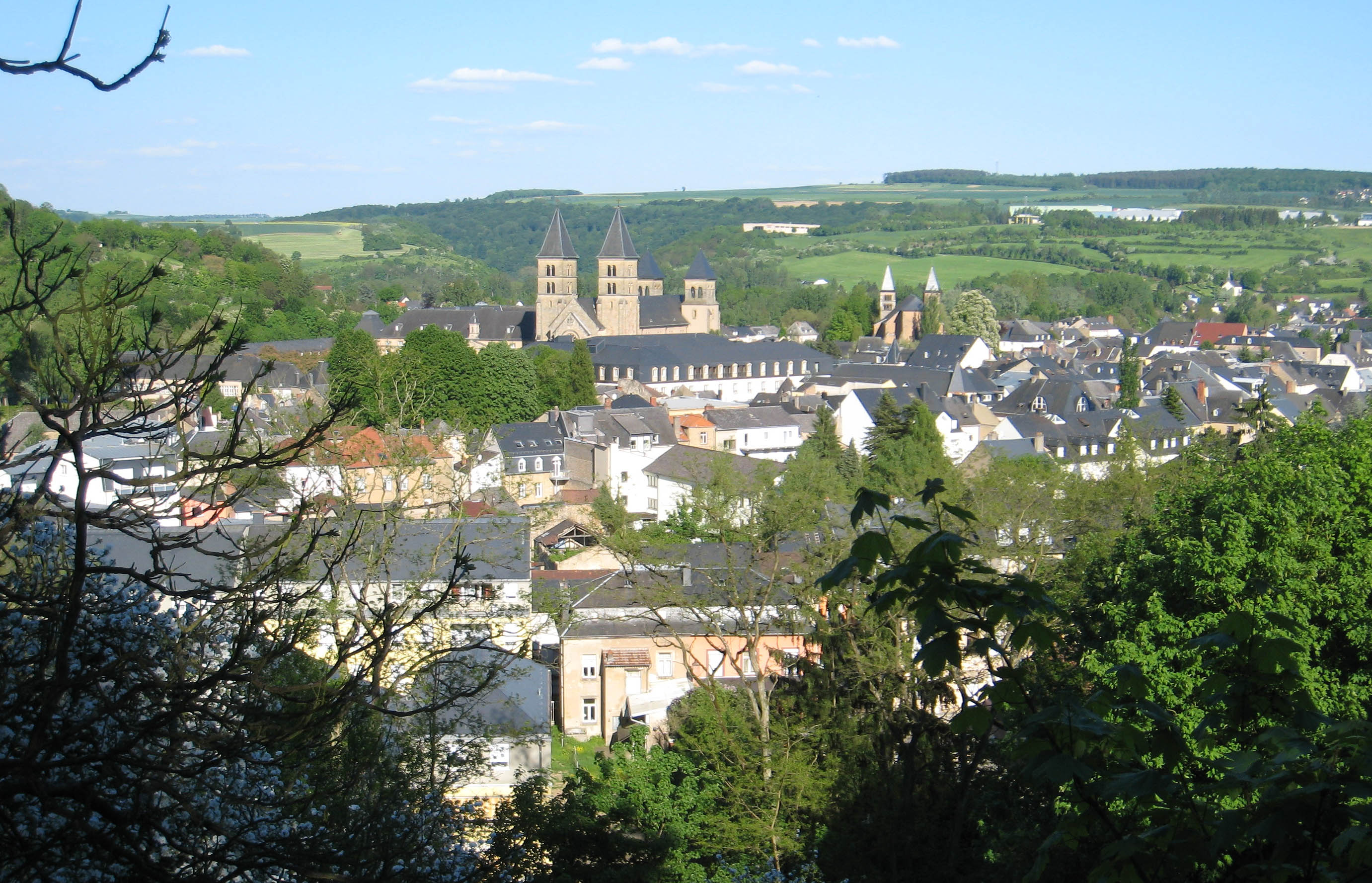 Looking east across Echternach.